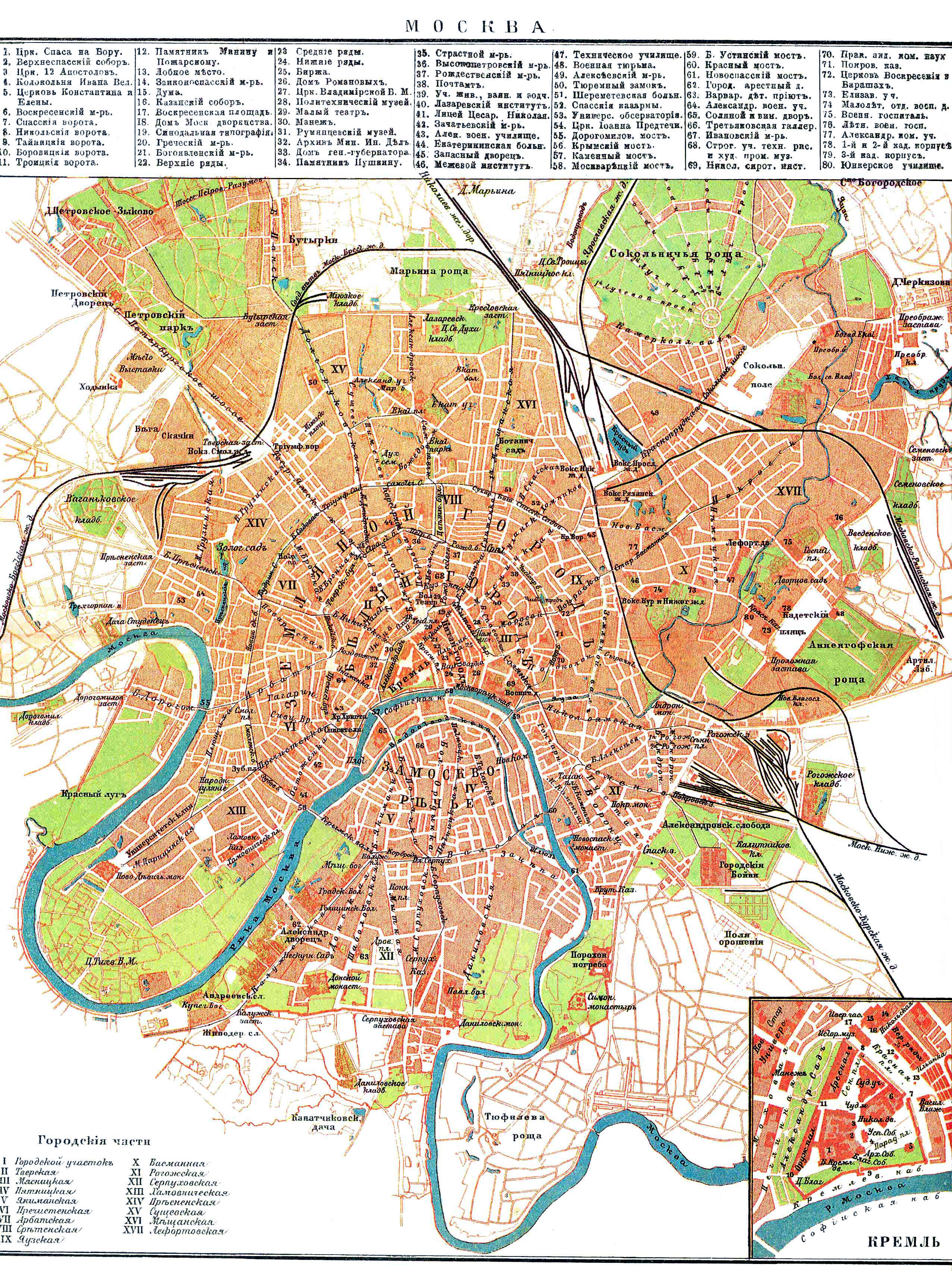 Illustration from Brockhaus and Efron Encyclopedic Dictionary (1890—1907)